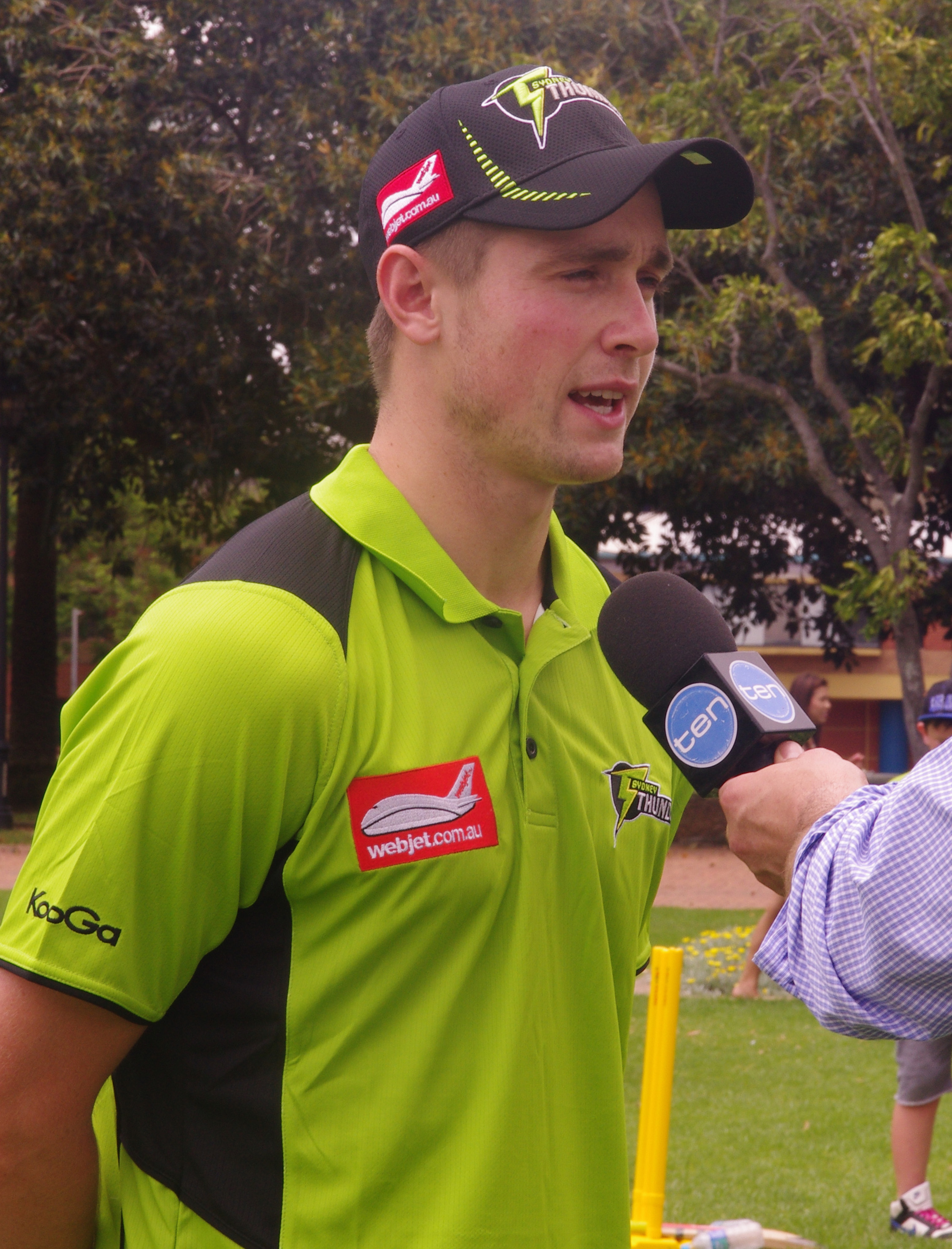 Chris Woakes being interviewed in December 2013